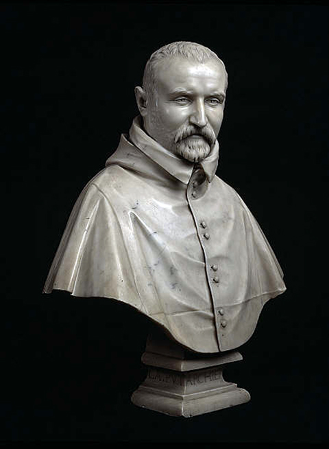 Bust of Monsignor Carlo Antonio dal Pozzo (1547-1607)